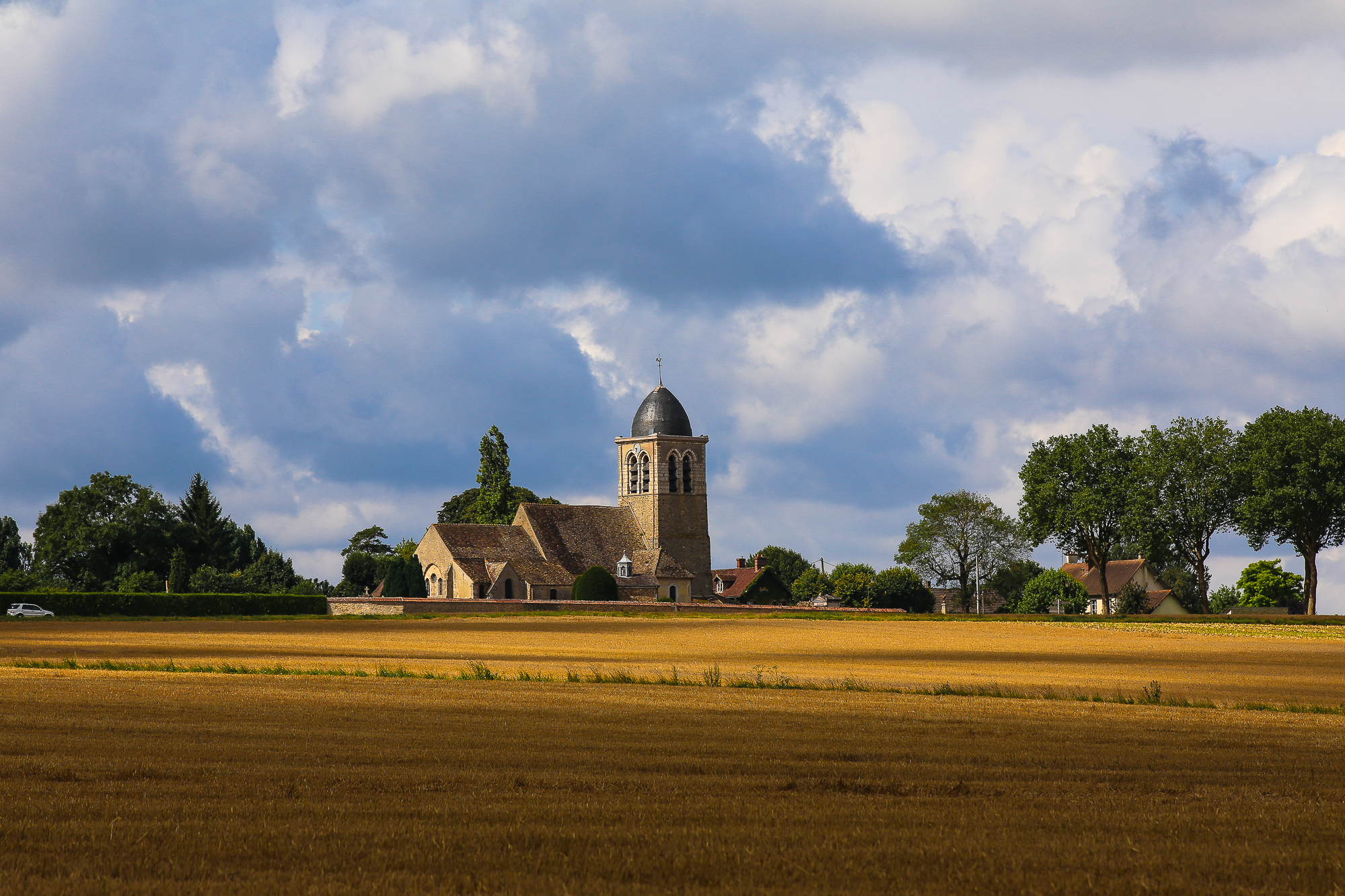 Jouars Pontchartrain